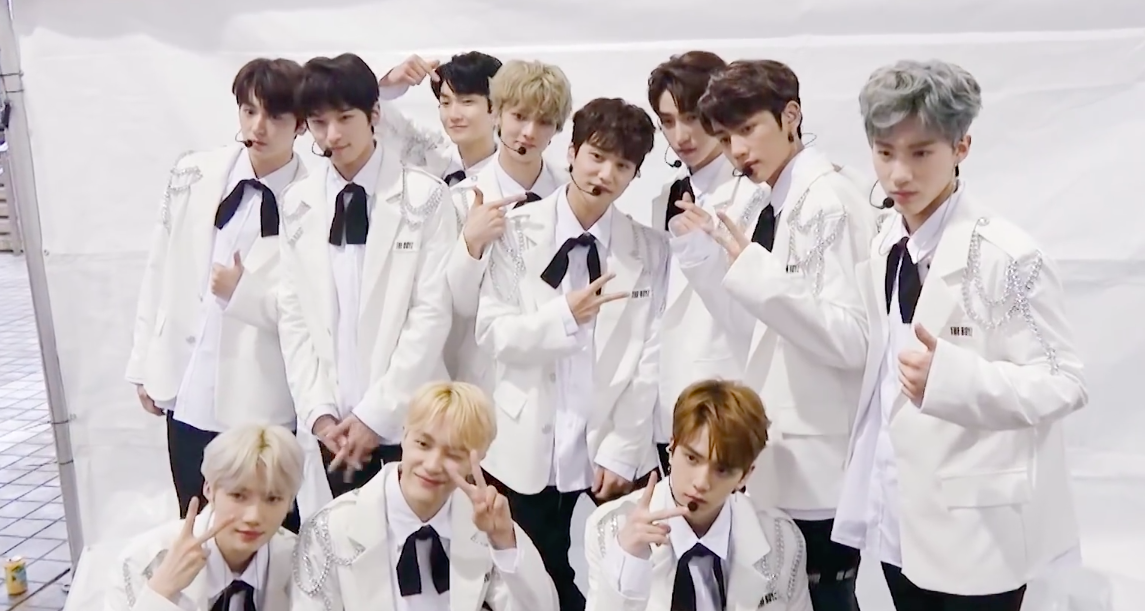 The Boyz, photo taken in 2018.